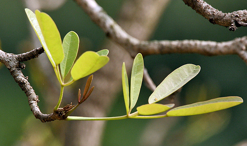 Caribbean Trumpet Tree Tabebuia aurea in Kolkata, West Bengal, India.